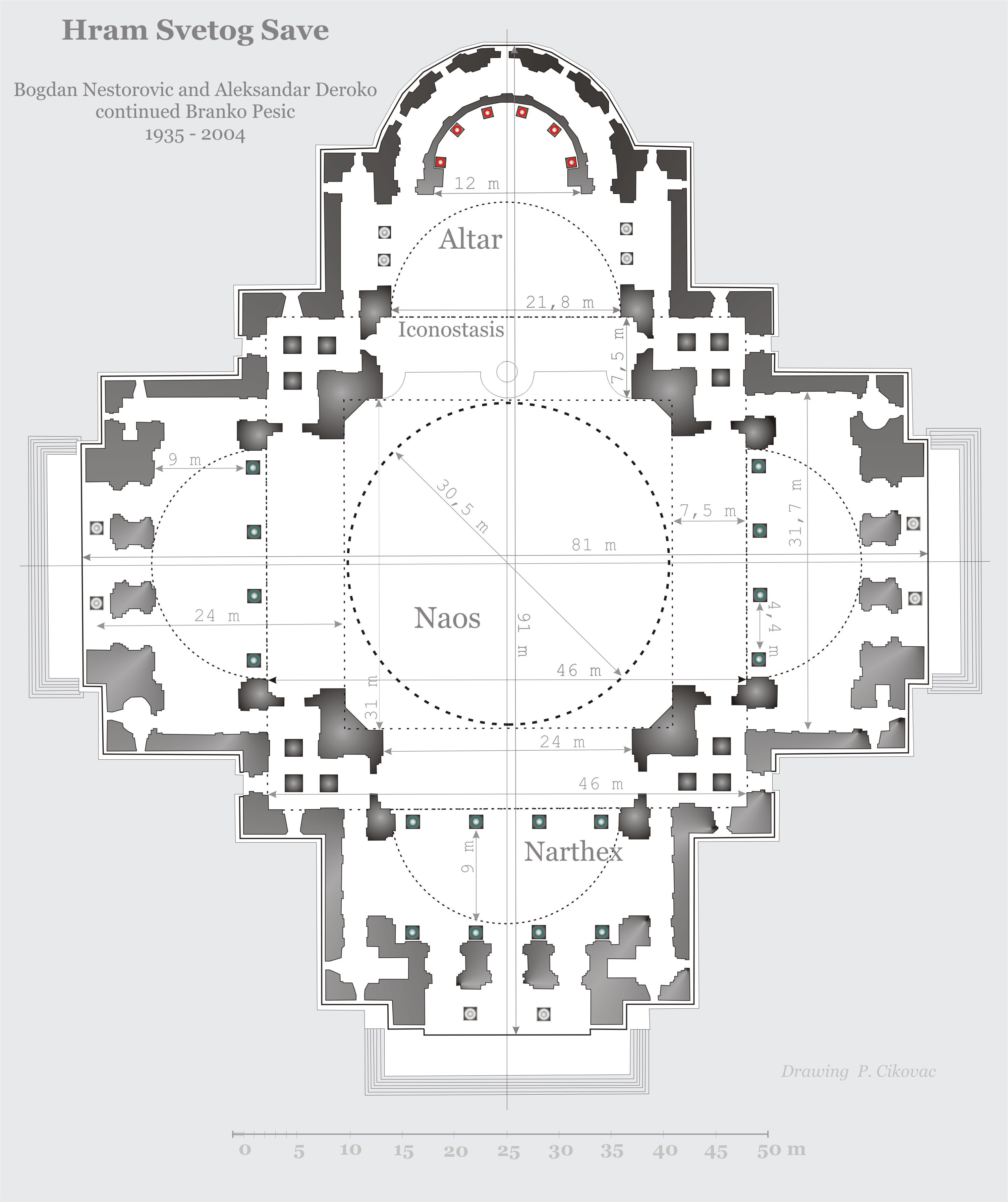 Ground plan of the Temple of Saint Sava in Belgrade. After Branko Pesic.